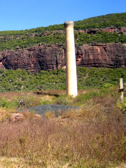 The Mount Mullgian chimney stack